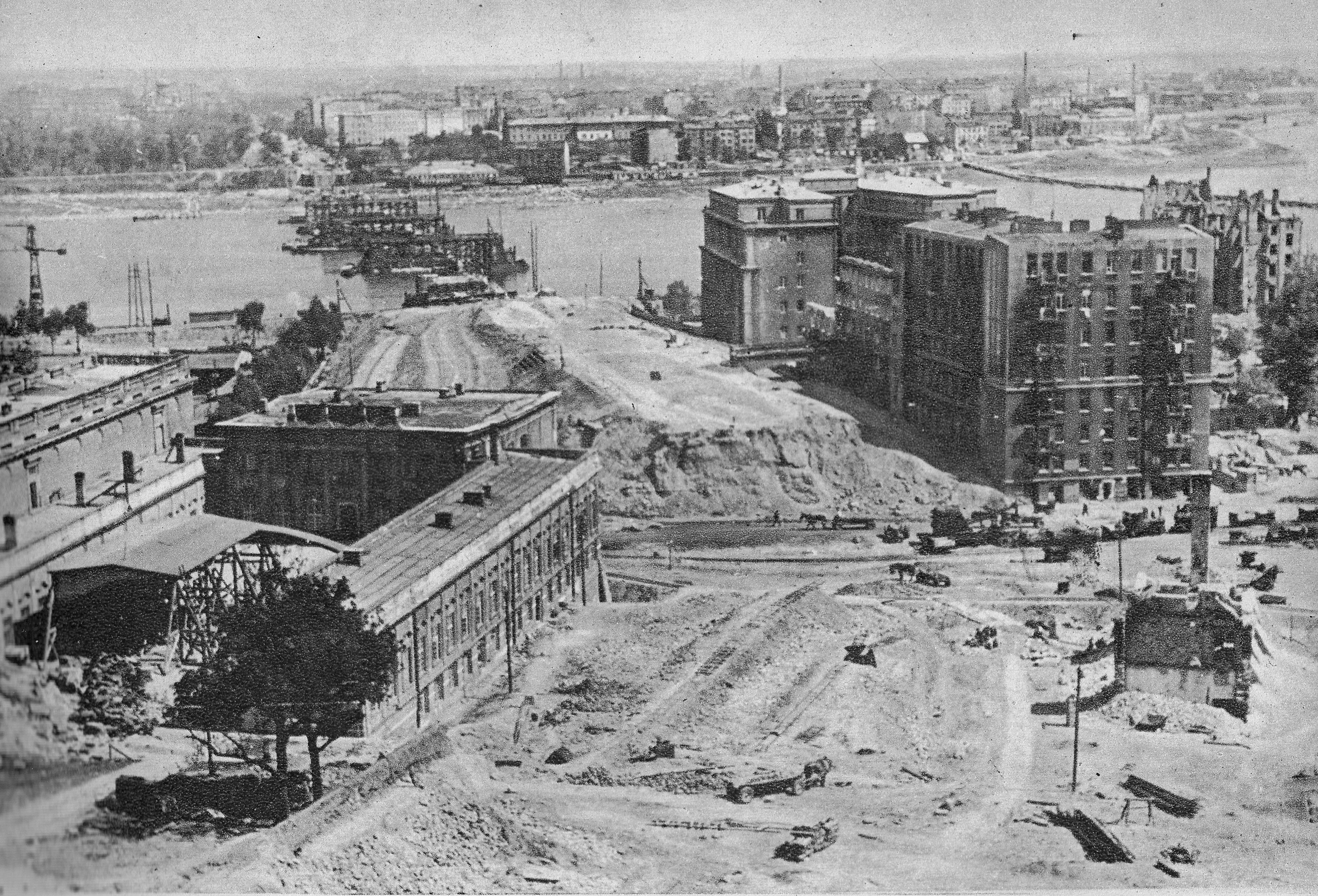 Construction of Śląsko-Dąborowski Bridge